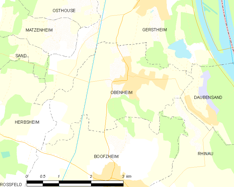 Map of French municipality